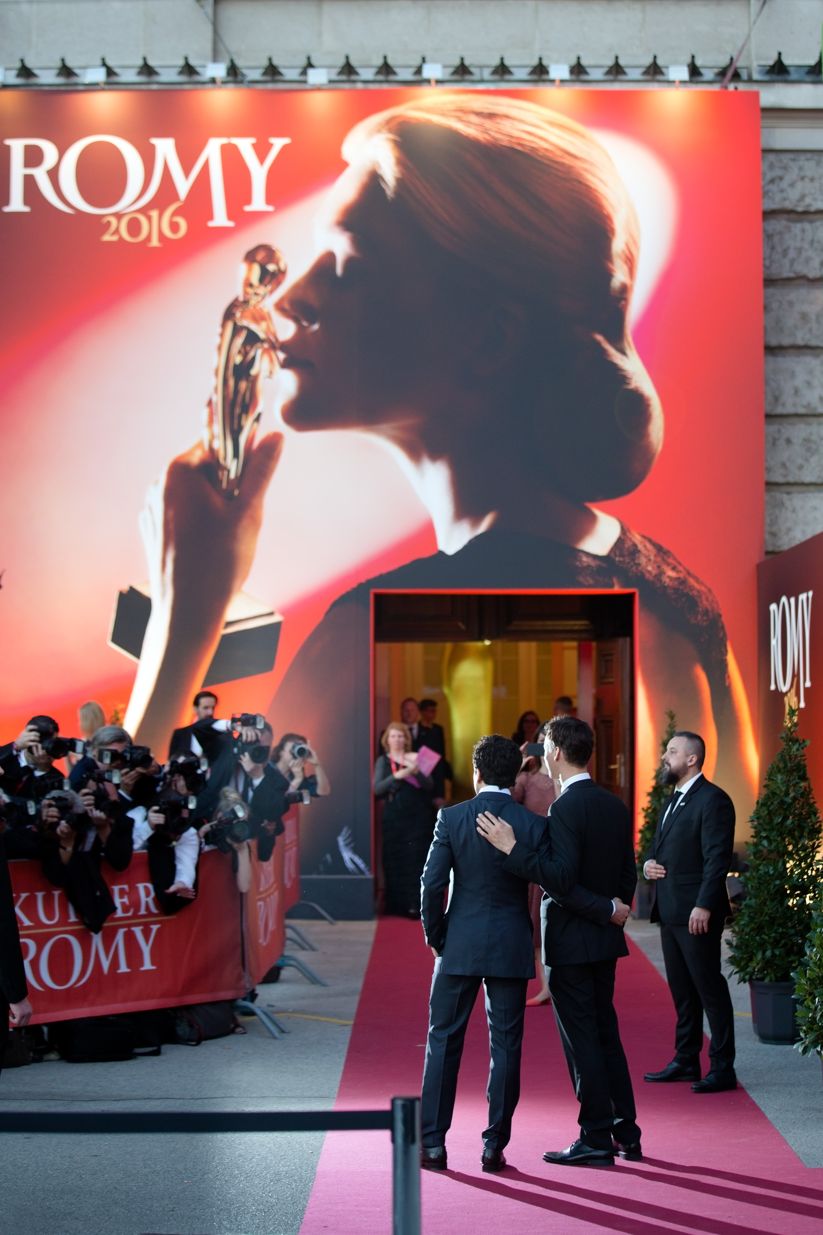 Elyas M'Barek and Florian David Fitz on the red carpet of the Romy TV awards 2016 at Hofburg Palace in Vienna, Austria.